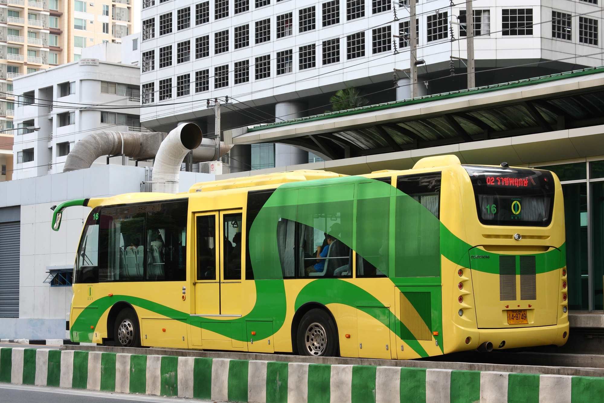 Bangkok BRT. Sunlong SLK6125CNG.